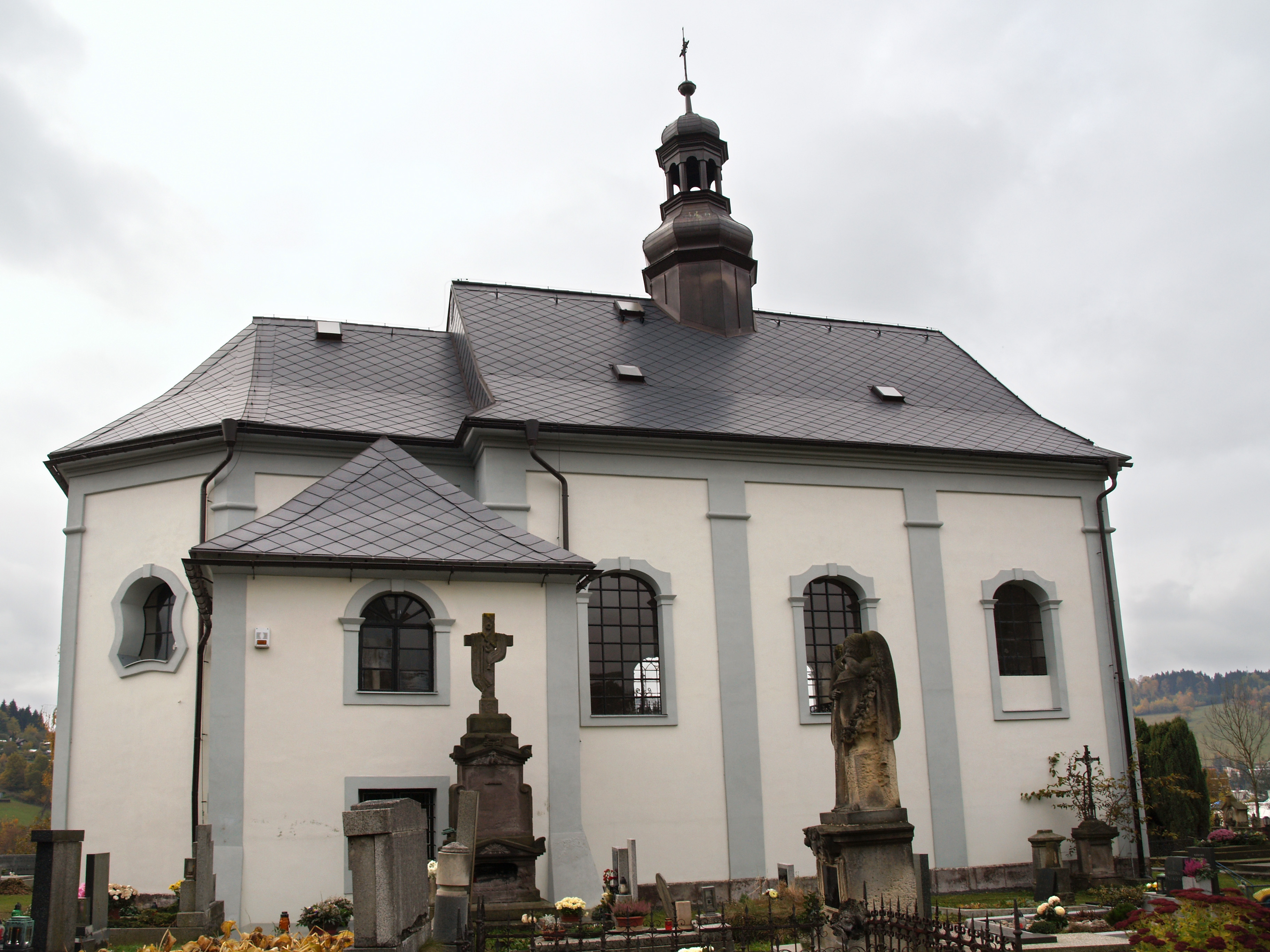 Czech town Semily—Saint John the Baptist church (dedicated 1727, finished 1735)